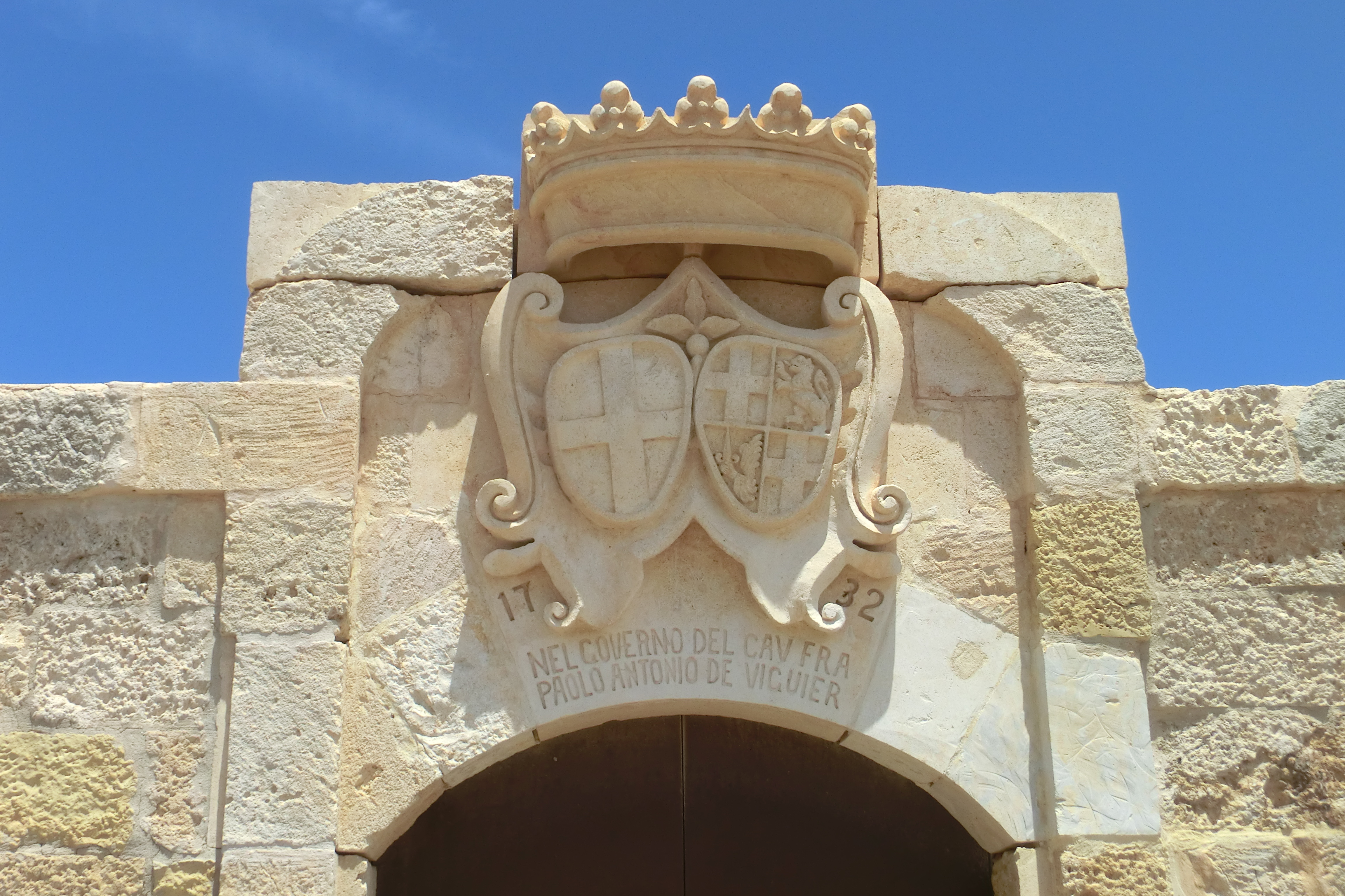 Saint Anthony's Battery, Qala, Gozo, Malta: Escutcheons above the archway.